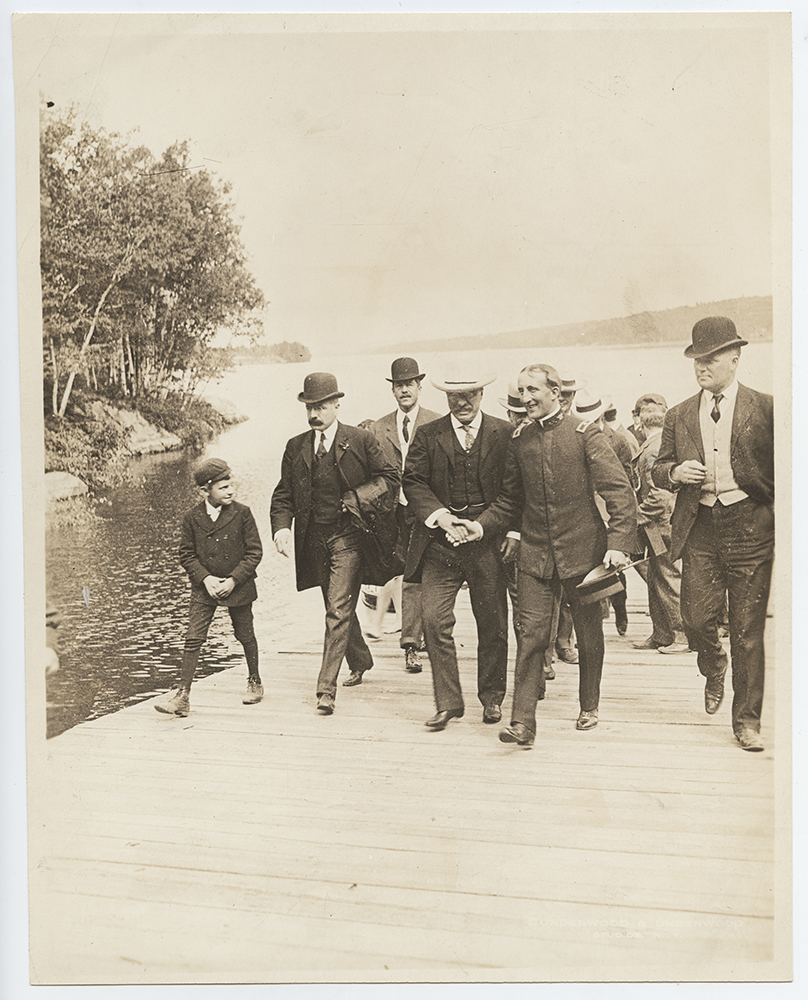 Title: [President Theodore Roosevelt During His Tour of New England] Creator: Underwood & Underwood Date: August 29, 1902 Part of: Doris A. and Lawrence H. Budner Theodore Roosevelt Photograph Collection Place: Newbury, New Hampshire Description: Theodore Roosevelt, during his New England tour, at Lake Sunapee in New Hampshire. In the photograph are George B. Cortelyou, Roosevelt's future secretary of Commerce and Labor, on Roosevelt's right, and William Craig, the first Secret Service agent ever killed in the line of duty, on the far right in the photograph. Description and date information inferred from duplicate photograph held by Harvard University Library. Source: Underwood & Underwood Studios, N.Y., New England tour, Harvard University Library, 1902, Physical Description: 1 photographic print: gelatin silver; 24.5 x 19 cm File: ag1984_0324_10_1r_lake_opt.jpg Rights: Please cite the Doris A. and Lawrence H. Budner Theodore Roosevelt Collection, DeGolyer Library, Southern Methodist University when using this file. A high-resolution version of this file may be obtained for a fee. For details see the web page. For other information, . For more information and to view the image in high resolution, View the Doris A. and Lawrence H. Budner Collection on Theodore Roosevelt collection